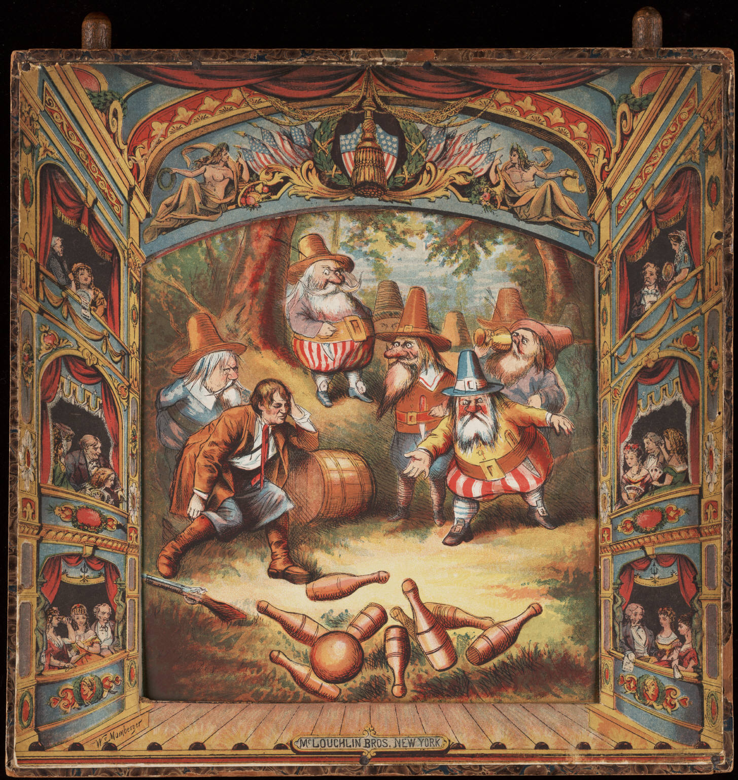 Illustration of Rip van Winkle from "Uncle Sam's panorama of Rip van Winkle and Yankee Doodle," illustrated by Thomas Nast, toy published by McLaughlin Bros., Inc. "Eight scenes from the story of Rip van Winkle and six scenes from the story of Yankee Doodle are pasted together side by side to form a long panoramic strip. The strip is mounted on two rollers within a one-sided box; exterior cranks turn the strip." General Collection, Beinecke Rare Book and Manuscript Library, Yale University, New Haven, Connecticut.